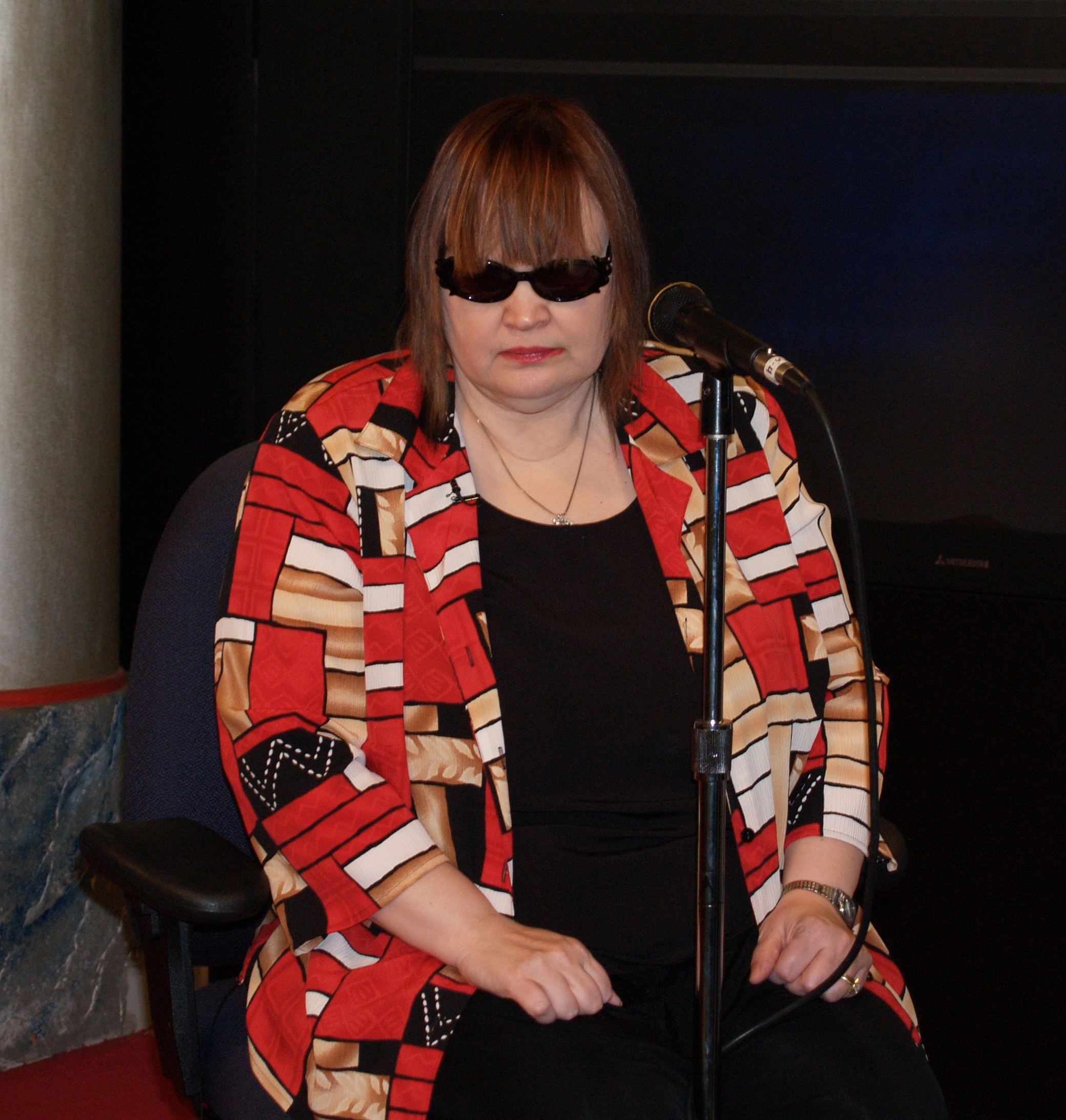 Photo of jazz vocalist Diane Schuur taken by Phil Konstantin in San Diego at KUSI-TV Please acknowledge "Phil Konstantin" as the creator of this photograph.